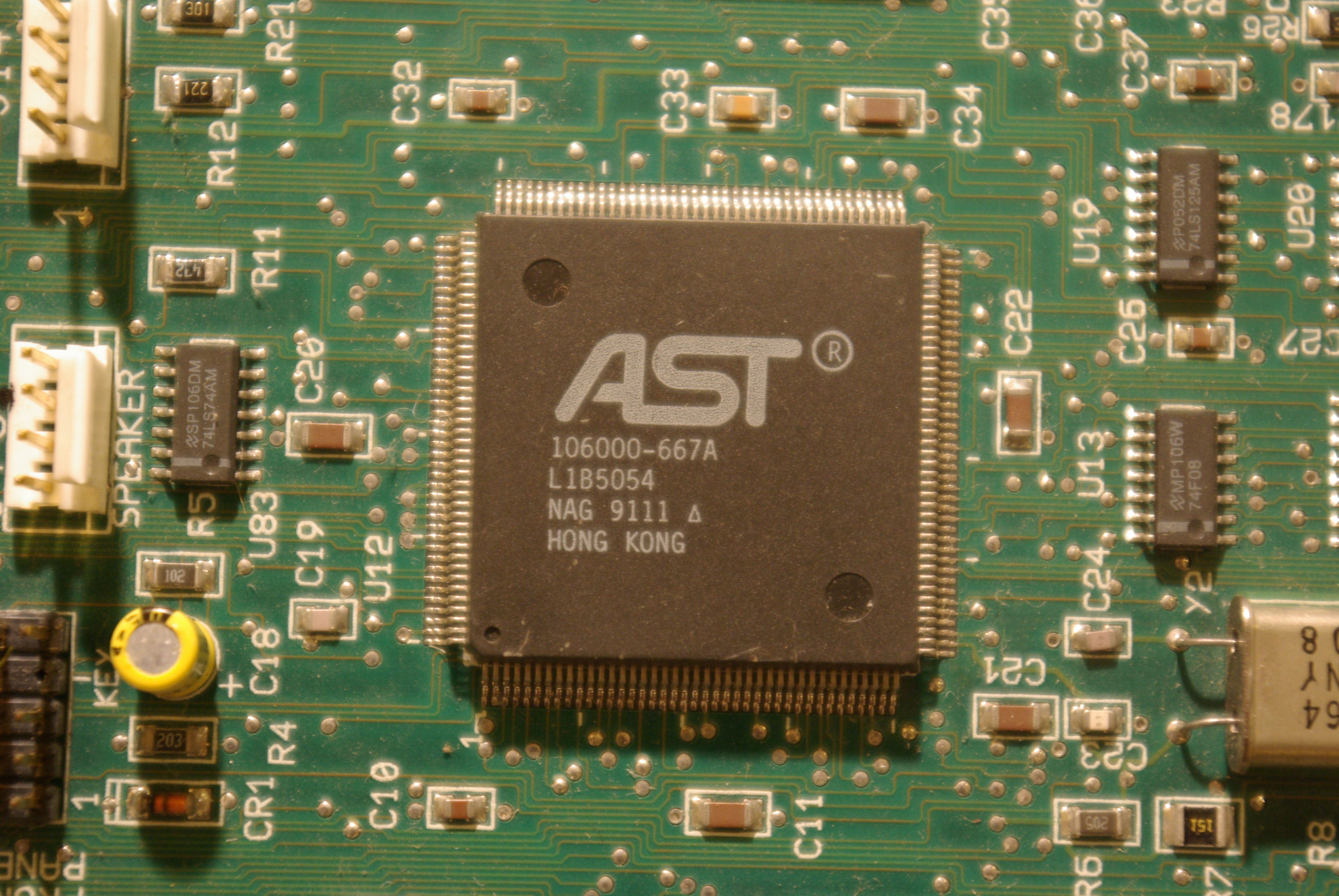 AST Screen print on custom Chip.